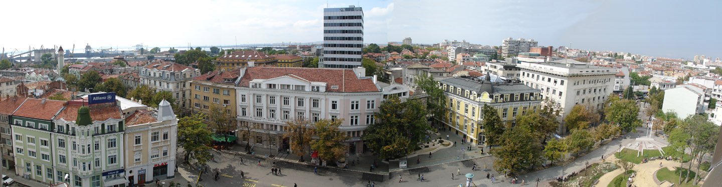 Aleksandrovska Street in Burgas is the main pedestrian shopping street of the city. Author: Георги Петровcopyright 2006